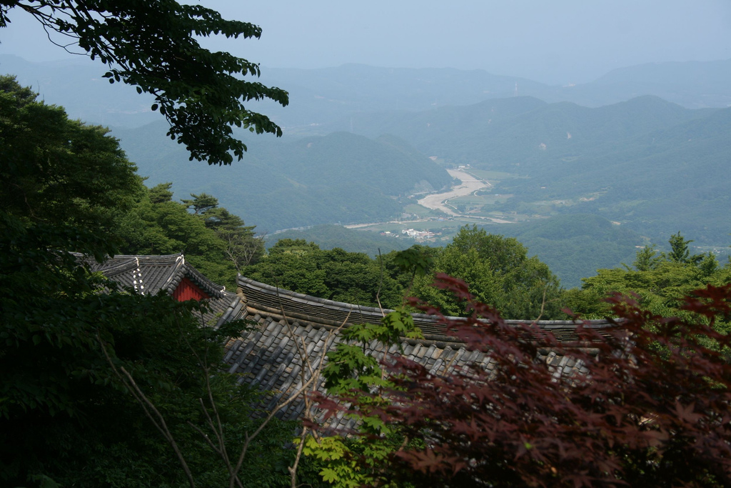 Seokguram Grotto in Gyeongju, South Korea